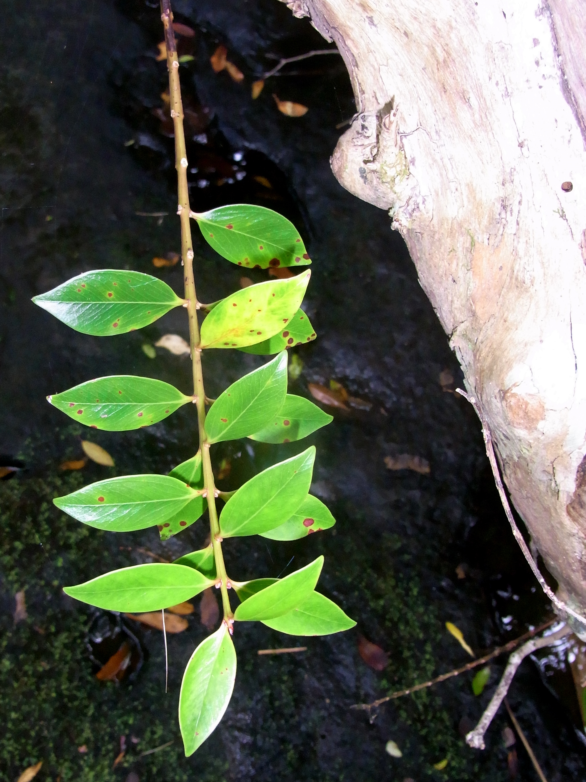 Scalybark Tree, Syzygium fullagarii, Erskine Creek Lord Howe Island